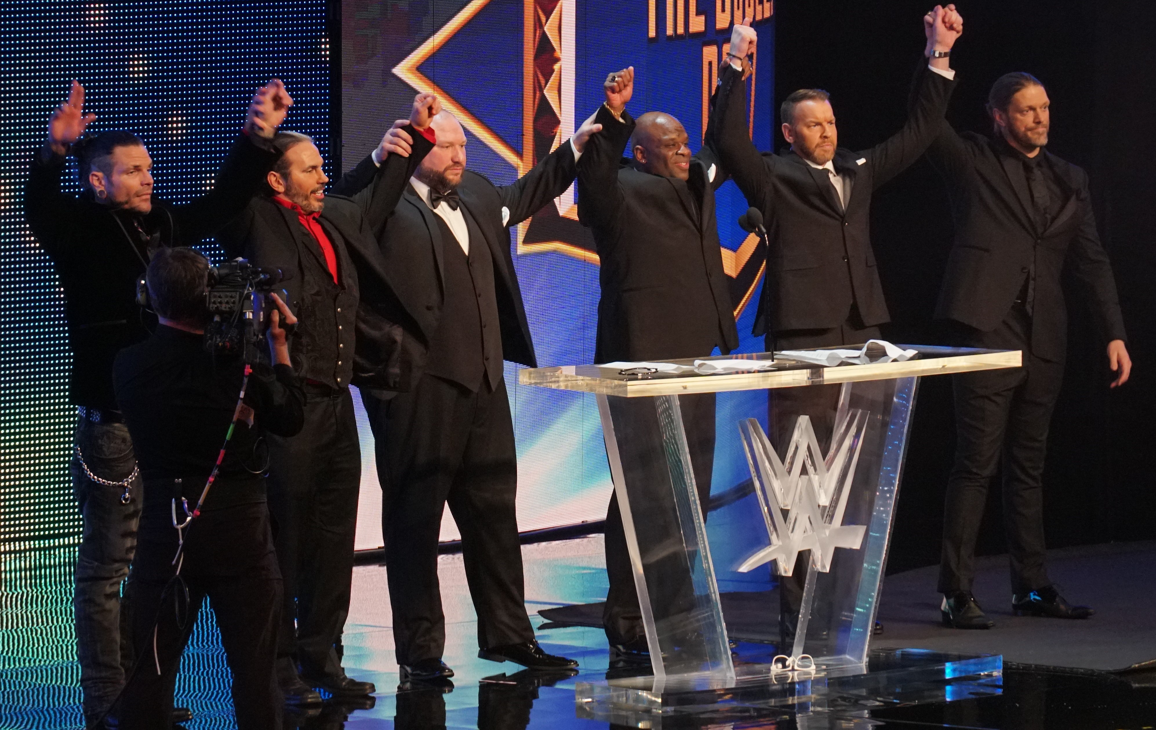 Left to right: The Hardy Boyz (Jeff and Matt), The Dudley Boyz (Bubba Ray and D-Von) and Edge and Christian at the 2018 WWE Hall of Fame ceremony.